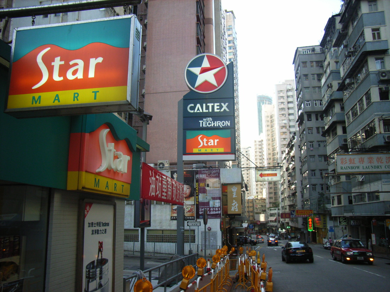 成和道(Shing Woo Road)，是香港島zh:跑馬地市中心區內人流最多的一條大街。[1] Author: BEVERLYSHEN